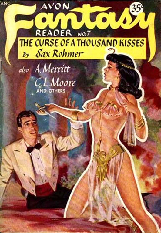 Cover of the fantasy fiction magazine Avon Fantasy Reader no. 7 (1948) featuring "The Curse of a Thousand Kisses" by Sax Rohmer.